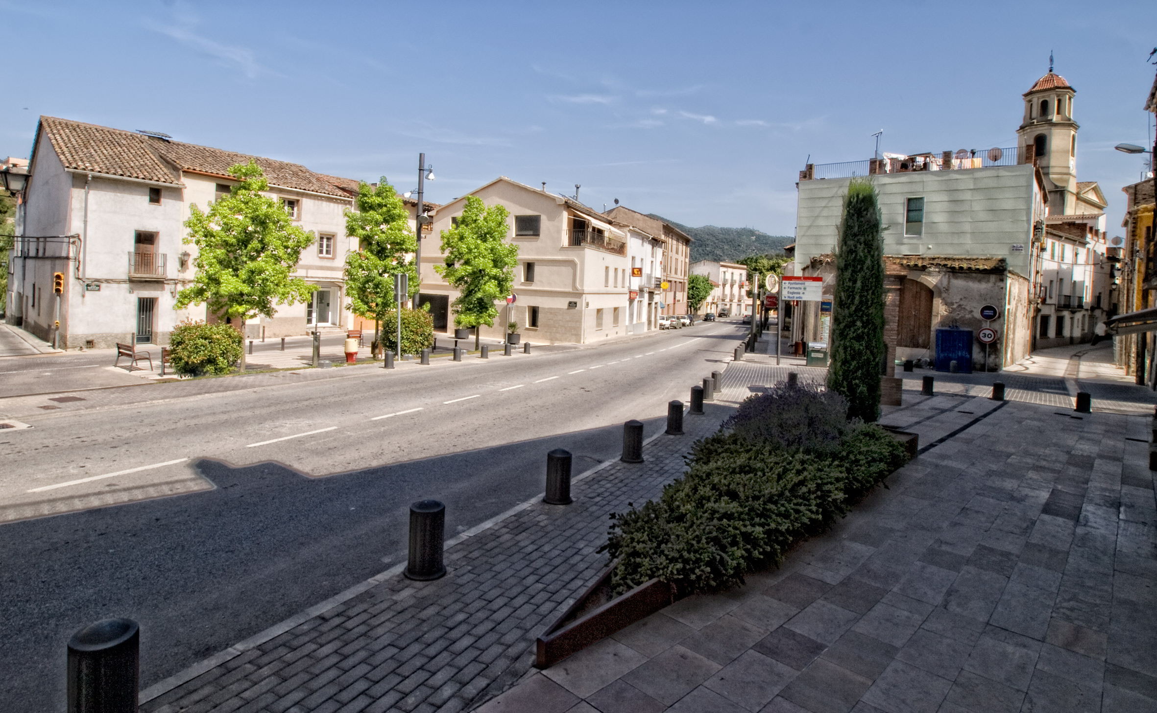 Catalunya Avenue of La Pobla de Claramunt (Catalonia, Spain)